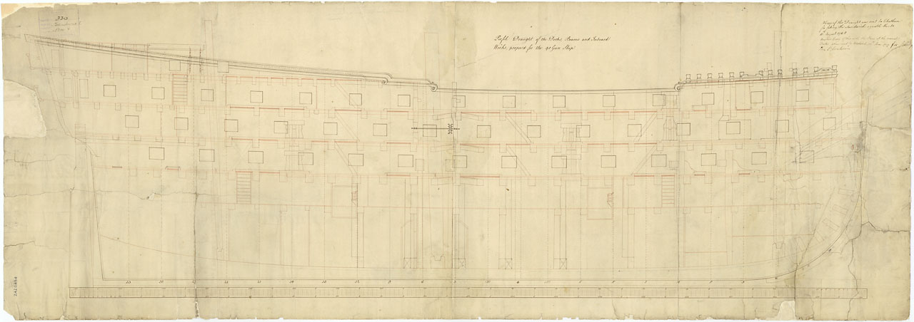 Plan showing the inboard profile proposed (and approved) for Sandwich (1759) and Blenheim (1761), both 90-gun Second Rate, three-deckers.